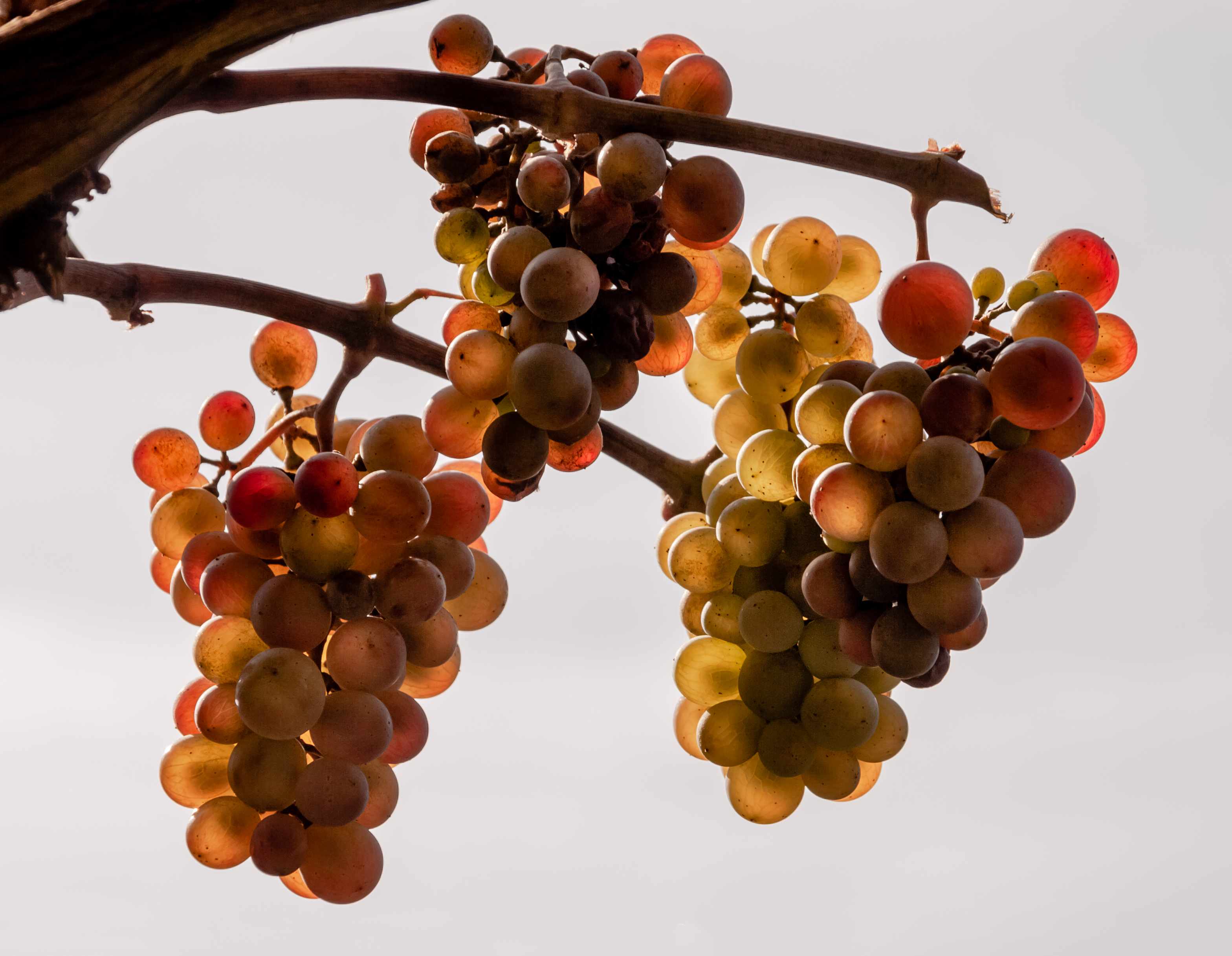 Grapes of an unknown variety planted for ornamental purposes on a balcony in Bamberg